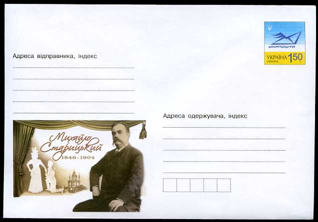 Ukraine 2010 envelope, dedicated to the 170 anniversary of the birth of M.P.Staritskogo - Ukrainian writer and actor.